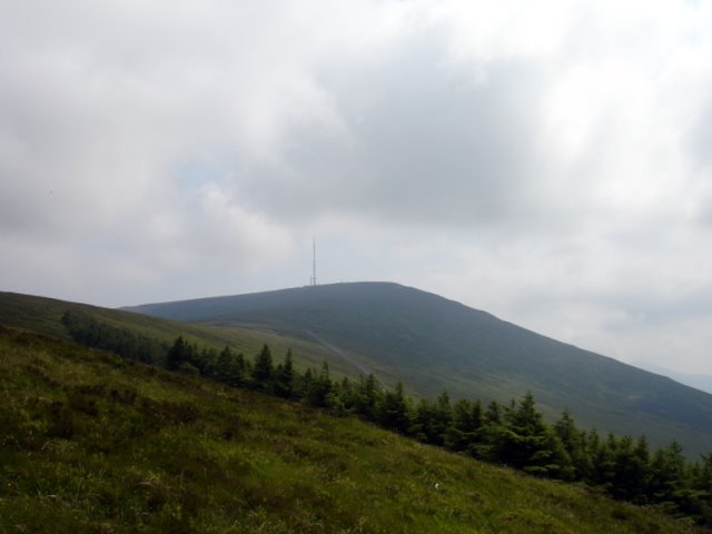 Image taken in June 2006 by Luke M. Curley. Mount Leinster, Blackstairs Mountains, Co. Carlow